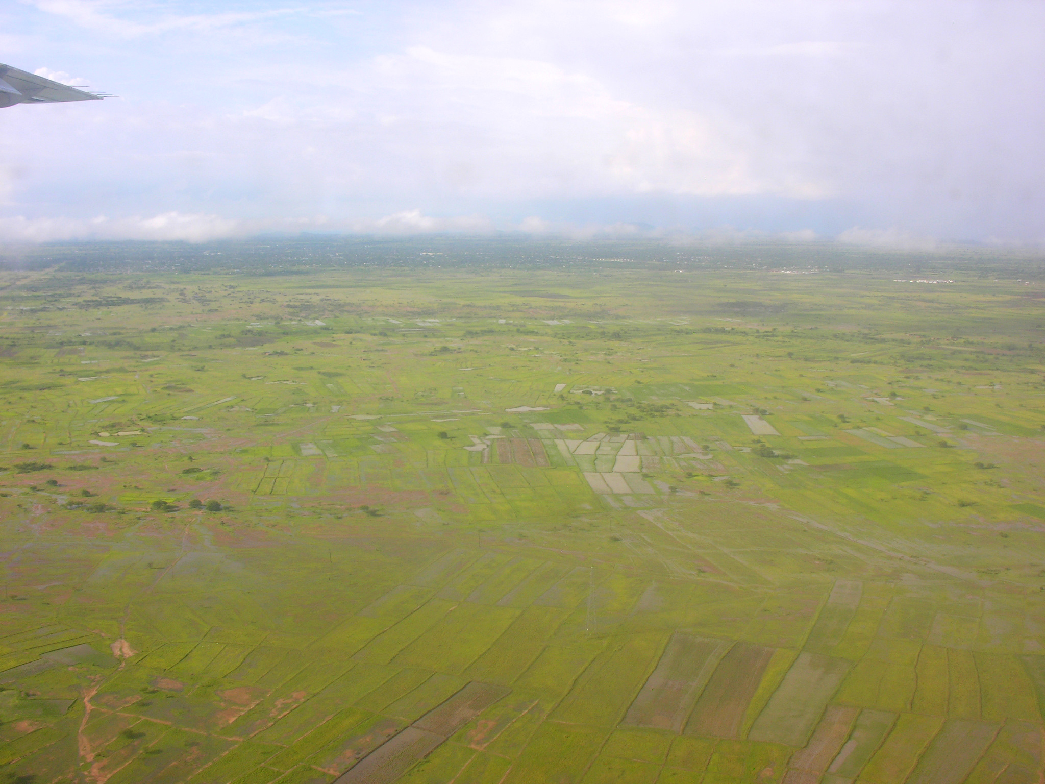 Early morning approach into Shinyanga